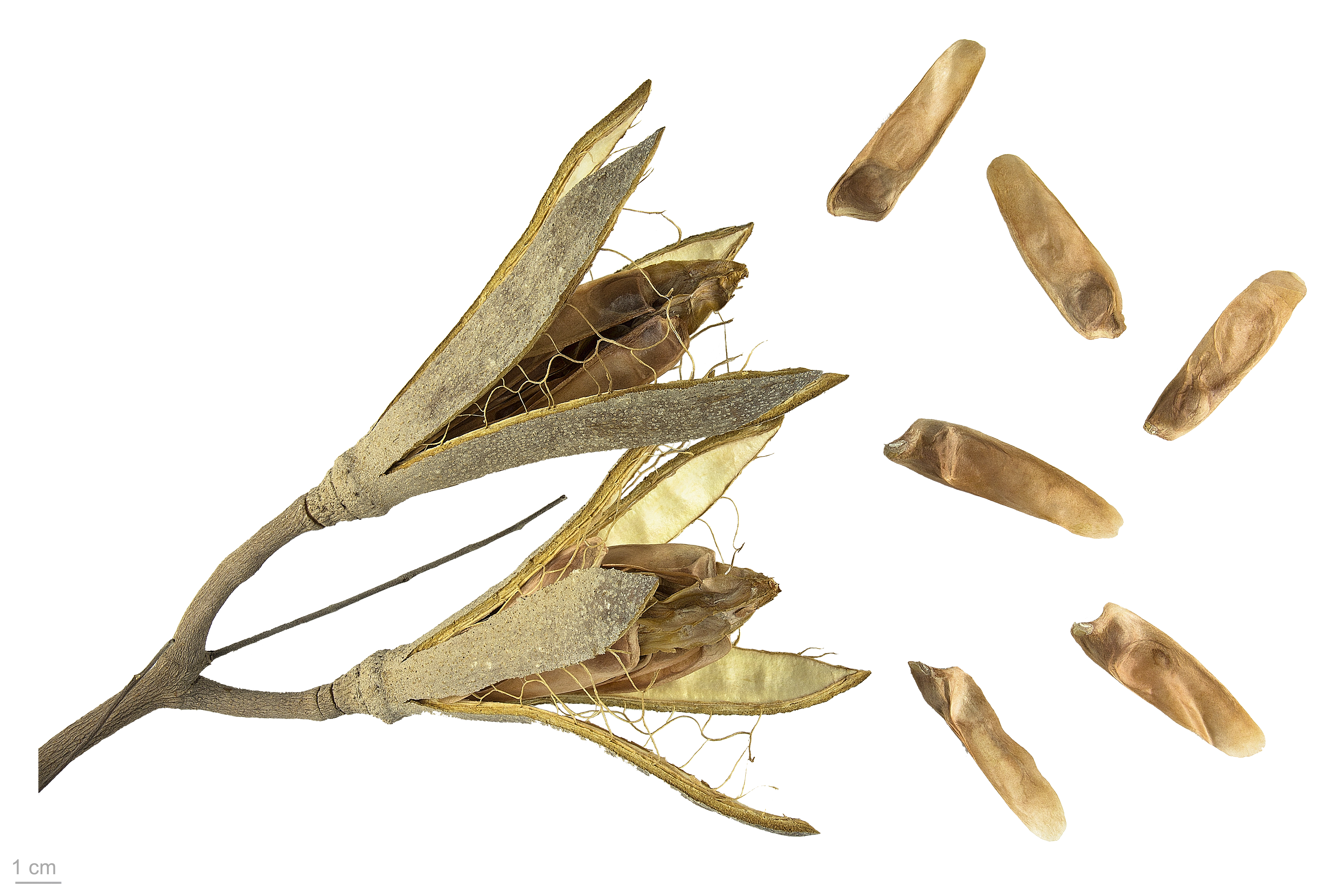 Pseudocedrela kotschyi, , seeds